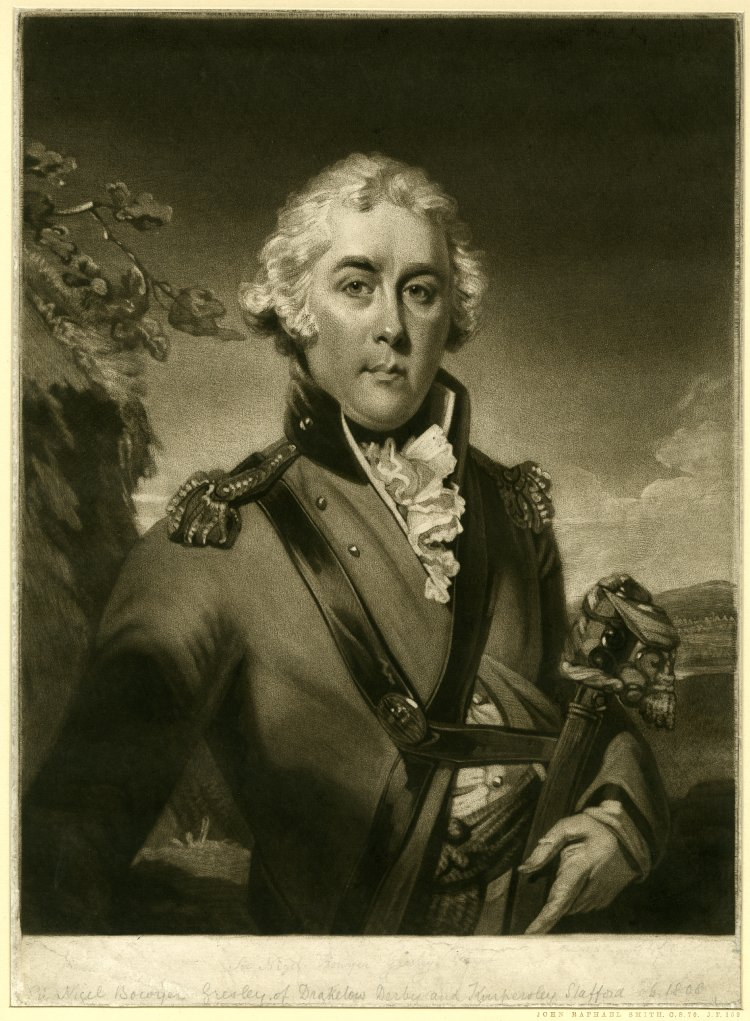 "Sir Nigel Bowyer Gresley, 7th Baronet"'. Courtesy of the British Museum, London.